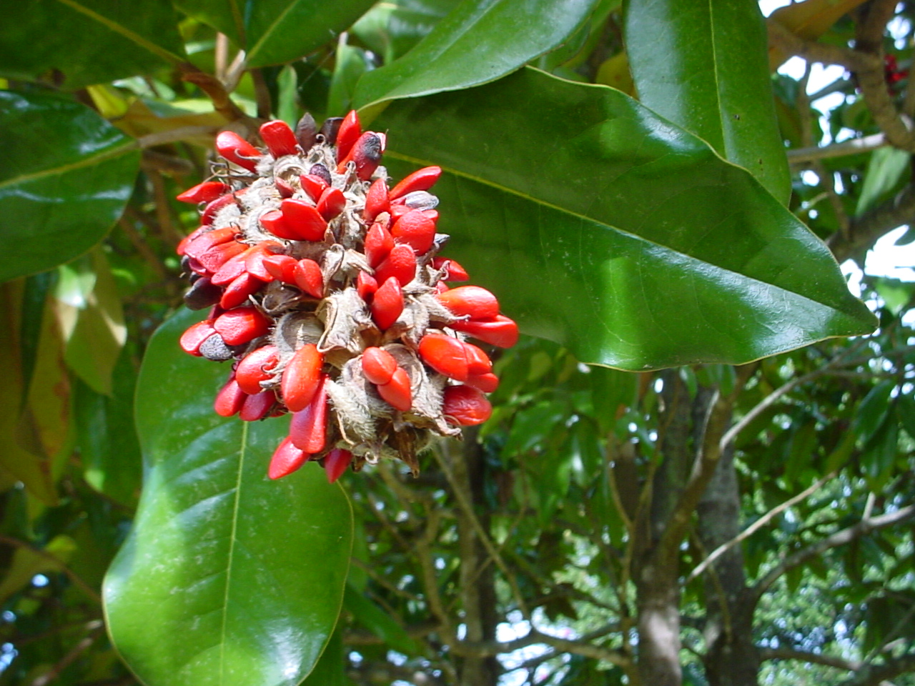 Magnolia tree seeds. Photo was taken in November.